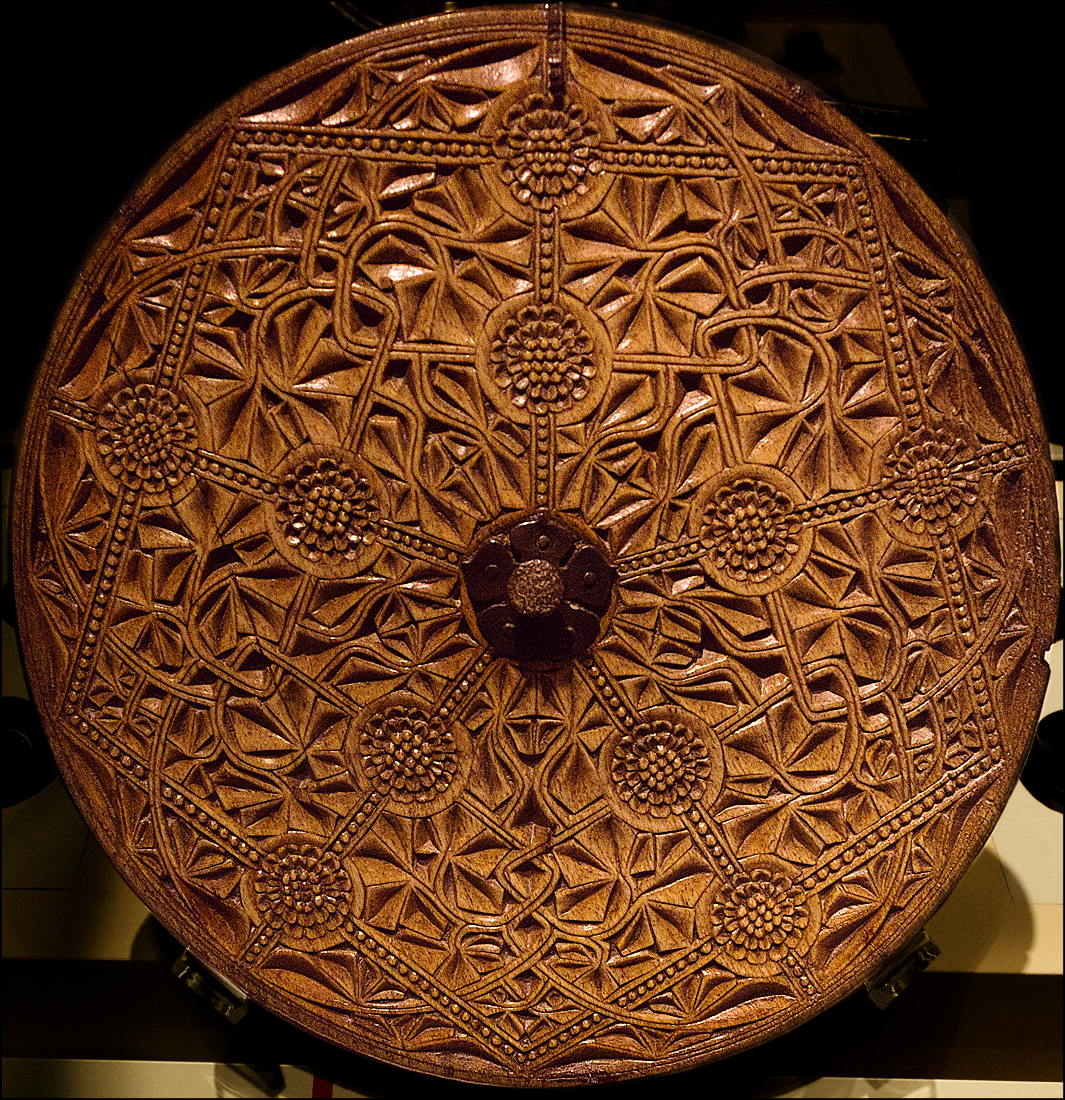 National Museum of Scotland. A mazer was a communal drinking cup used while feasting. They were originally made in Germany (between the 11th and 16th centuries) from maple, which has spotted markings - Maser is the German word for these spots. They take the form of shallow bowls with a foot to rest it on a table, and a decorative boss in the centre of the inside. The foot, the boss (also known as the print) and the metalwork around the rim of the Bute Mazer are all made of silver. This is the oldest surviving Scottish mazer, and is associated with Rothesay Castle on Bute. It is thought to have been used in the 1320's, so is at least that old.